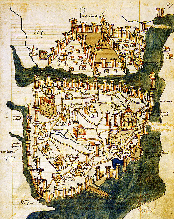 Map of Constantinople (modern Istanbul), designed in 1422 by Florentine cartographer Cristoforo Buondelmonti (Description des îles de l'archipel, Bibliothèque nationale, Paris) is the oldest surviving map of the city, and the only surviving map which predates the Turkish conquest of Constantinople in 1453.